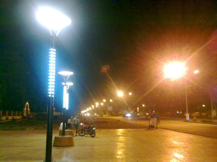 Narra Avenue Bayugan